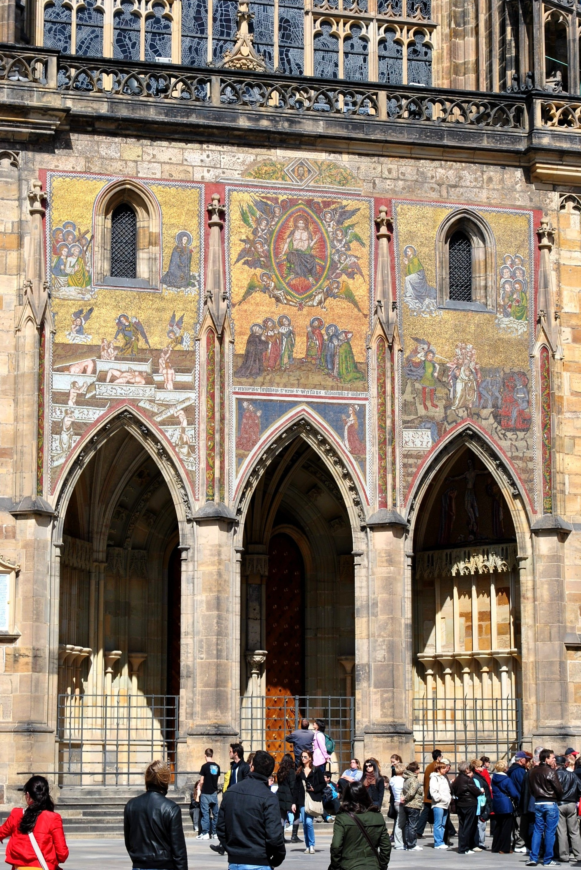 The exterior design - the mosaic above the luneltes